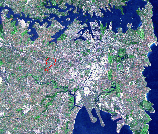 NASA satellite image of Sydney, Australia, cropped and modified to show borders of Summer Hill